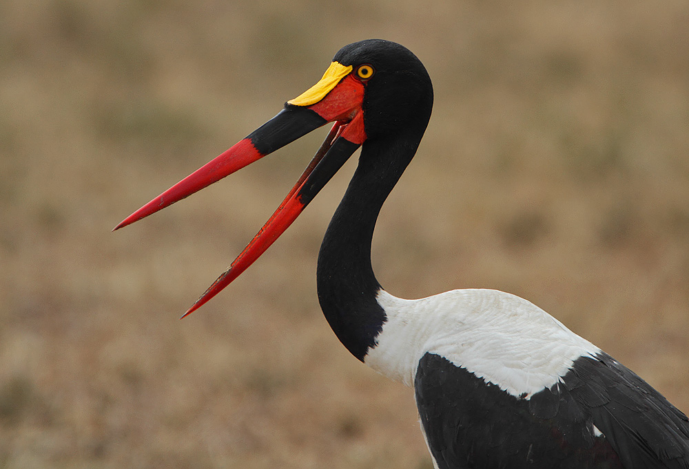 Don't be fooled by the open bill as like other storks these birds lack a vocal apparatus and are essentially mute though do bill-clap. Image taken in the Masai Mara Kenya.